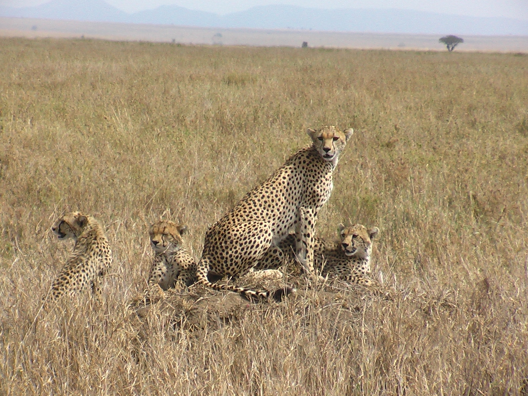 Family of cheetahs. The little ones stay with their mother while they are dependent on her.